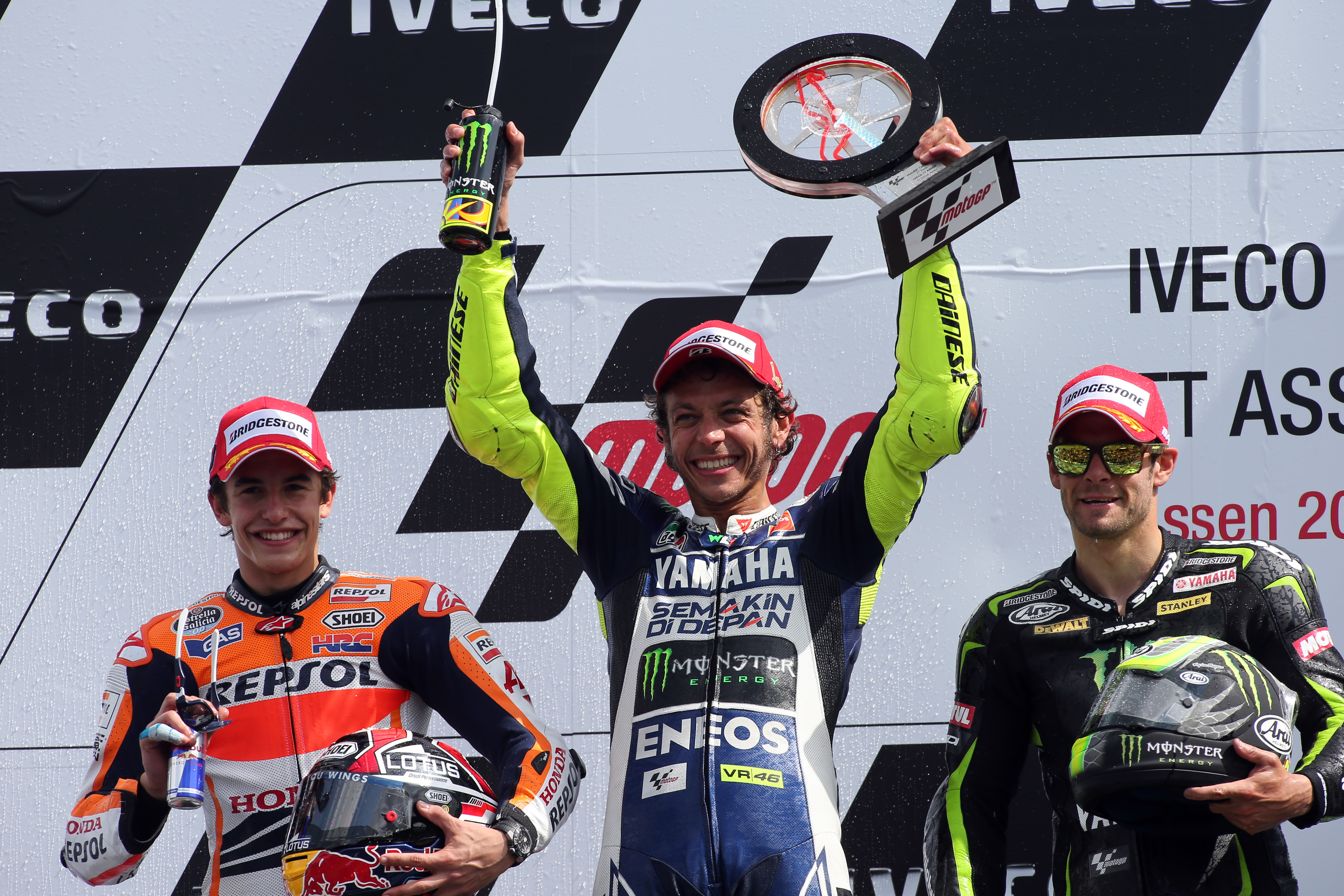 Marc Márquez, Valentino Rossi and Cal Crutchlow, celebrating on the podium after finishing in second, first and place at the 2013 Dutch TT in Assen.